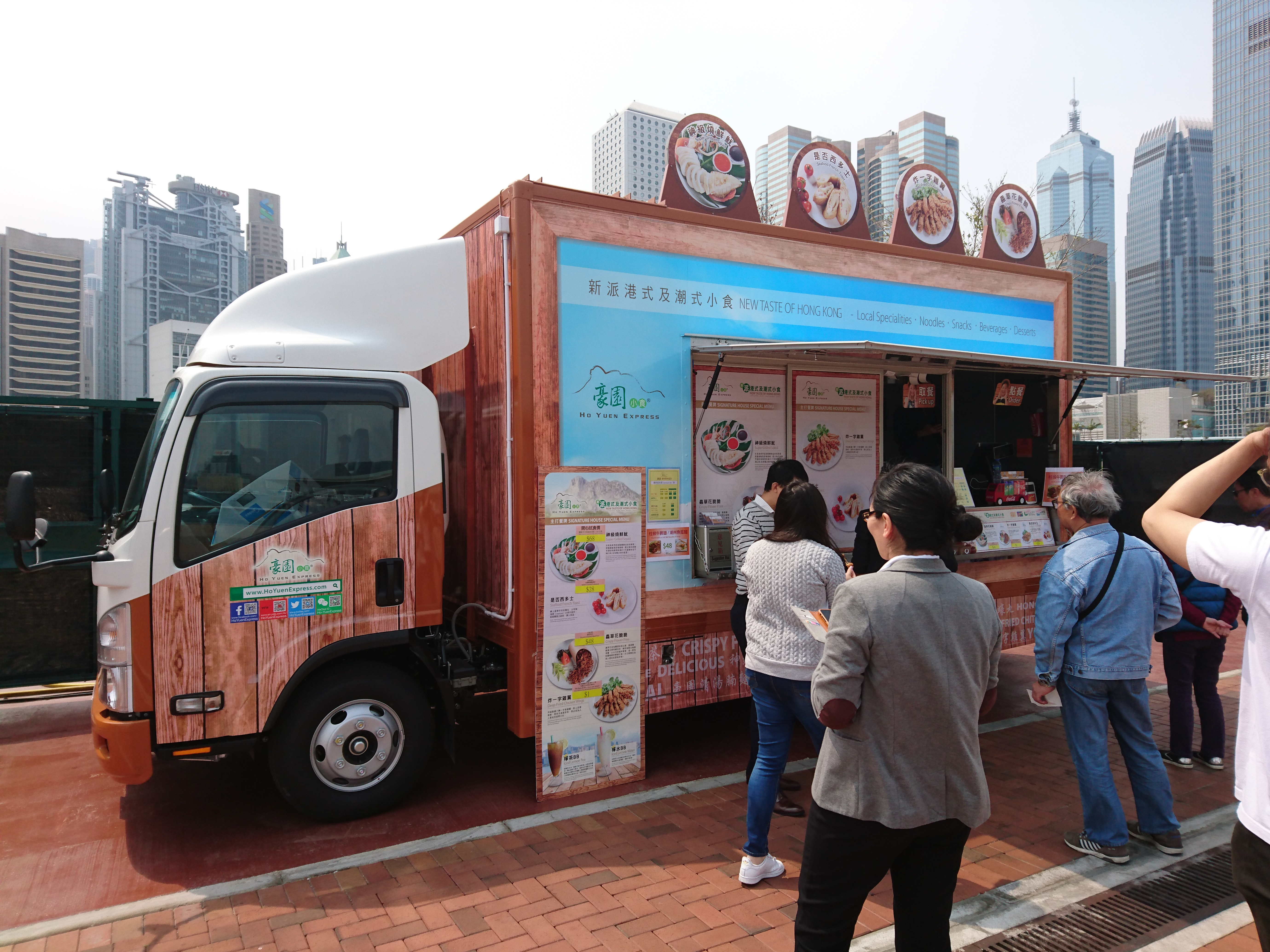 Ho Yuen Express Food Truck in Central Harbourfront Event Space